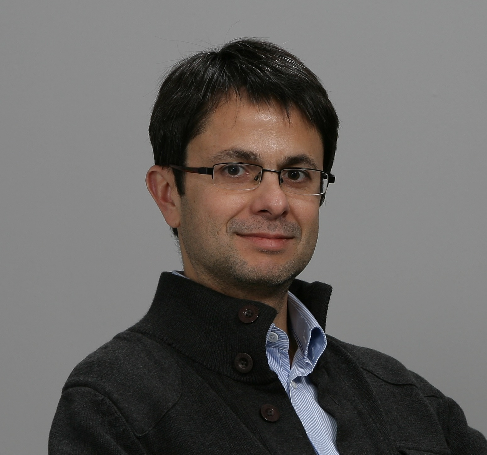 Roman Katsman's photo